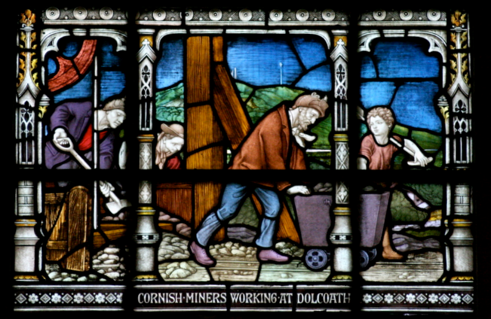 A stained glass window depicting miners at Dolcoath, Cornwall. The window was donated to Truro cathedral in the late 1890s, shortly after the major accident at the mine (1893).